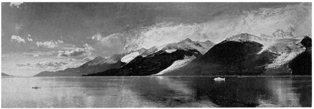 Vassar Glacier (right) and Wellesley Glacier (slightly to the left), part of College Fjord in Alaska. Photo probably taken from the north facing south or southwest. Original caption: "FIG. 4-Panoramic view of the cascading glaciers on the west side of College Fiord from Photo Station 0. Wellesley, next Vassar."